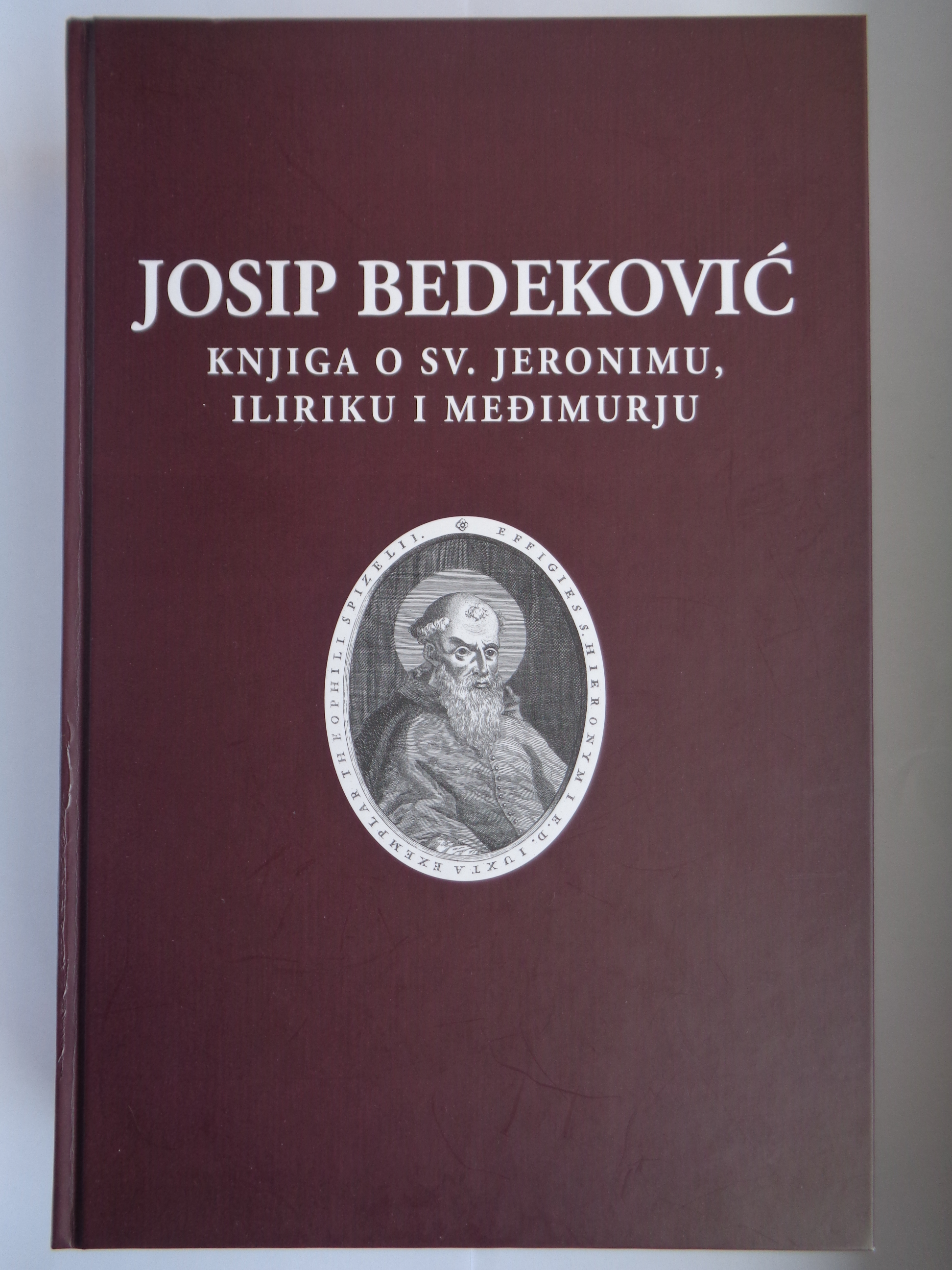 "The Saint Jerome, Illyricum and Medjimurie Book" promotion in Čakovec, Croatia (Author: Josip Bedeković)